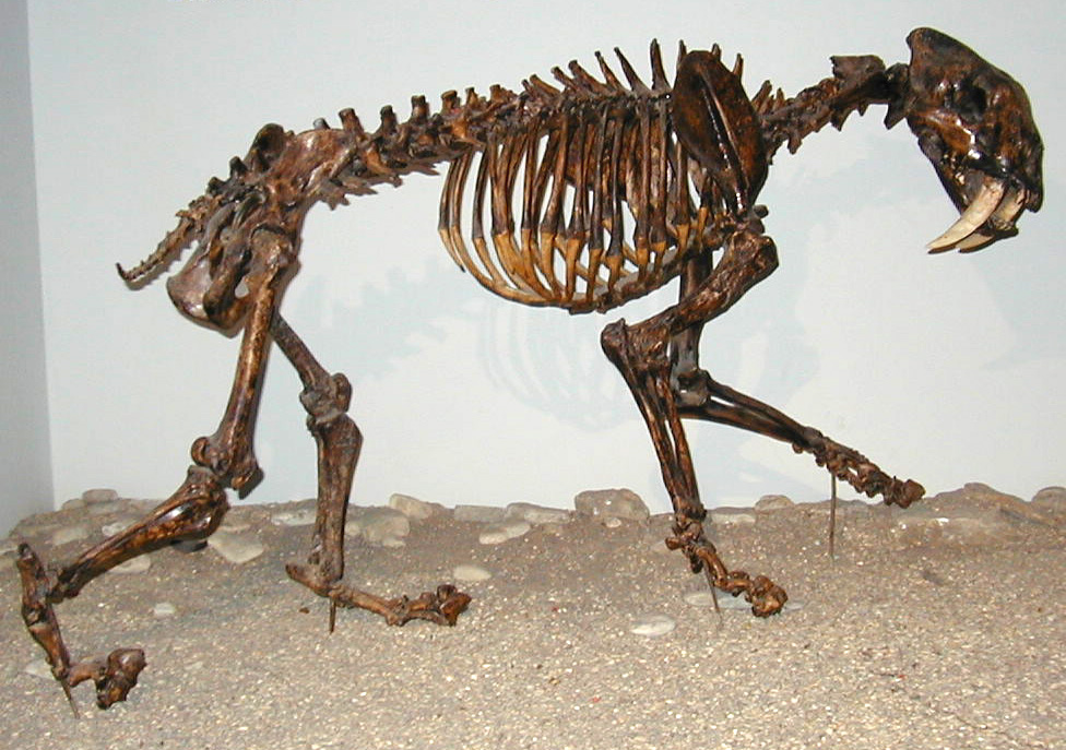 Smilodon fatalis Leidy, 1869 saber-toothed tiger skeleton from the Upper Pleistocene of California, USA (public display, Cincinnati Museum of Natural History & Science, Cincinnati, Ohio, USA). This is the famous, fearsome-looking saber-toothed tiger, Smilodon. Several fossil cats are known with hyper-enlarged canine teeth. These fangs helped the cats bring down large prey animals. Smilodon is known from the Late Pliocene and Pleistocene of the Americas. An especially prolific locality for Smilodon fossils is the La Brea Tar Pits of California’s Los Angeles Basin. Classification: Animalia, Vertebrata, Mammalia, Carnivora, Felidae By the way, some will insist that the traditional term "saber-toothed tiger" is incorrect. Common names do not have scientific significance - they never have. I would recommend that people "chill" when it comes to common names. As an example, many do not call starfish "starfish" anymore, the logic being that they are not fish (which is true). Their common name is now frequently "seastars". Well, they aren't stars, either. "Starfish" is fine - no one thinks they are fish.